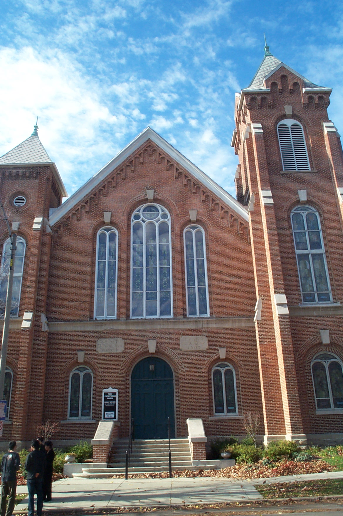 The First Presbyterian Church of Champaign, Illinois, founded 1850 in the city's historic 'Sesquicentennial Neighborhood', is the oldest church in town. Photograph taken 2005-11. Copyright © 2005 Kaihsu Tai.